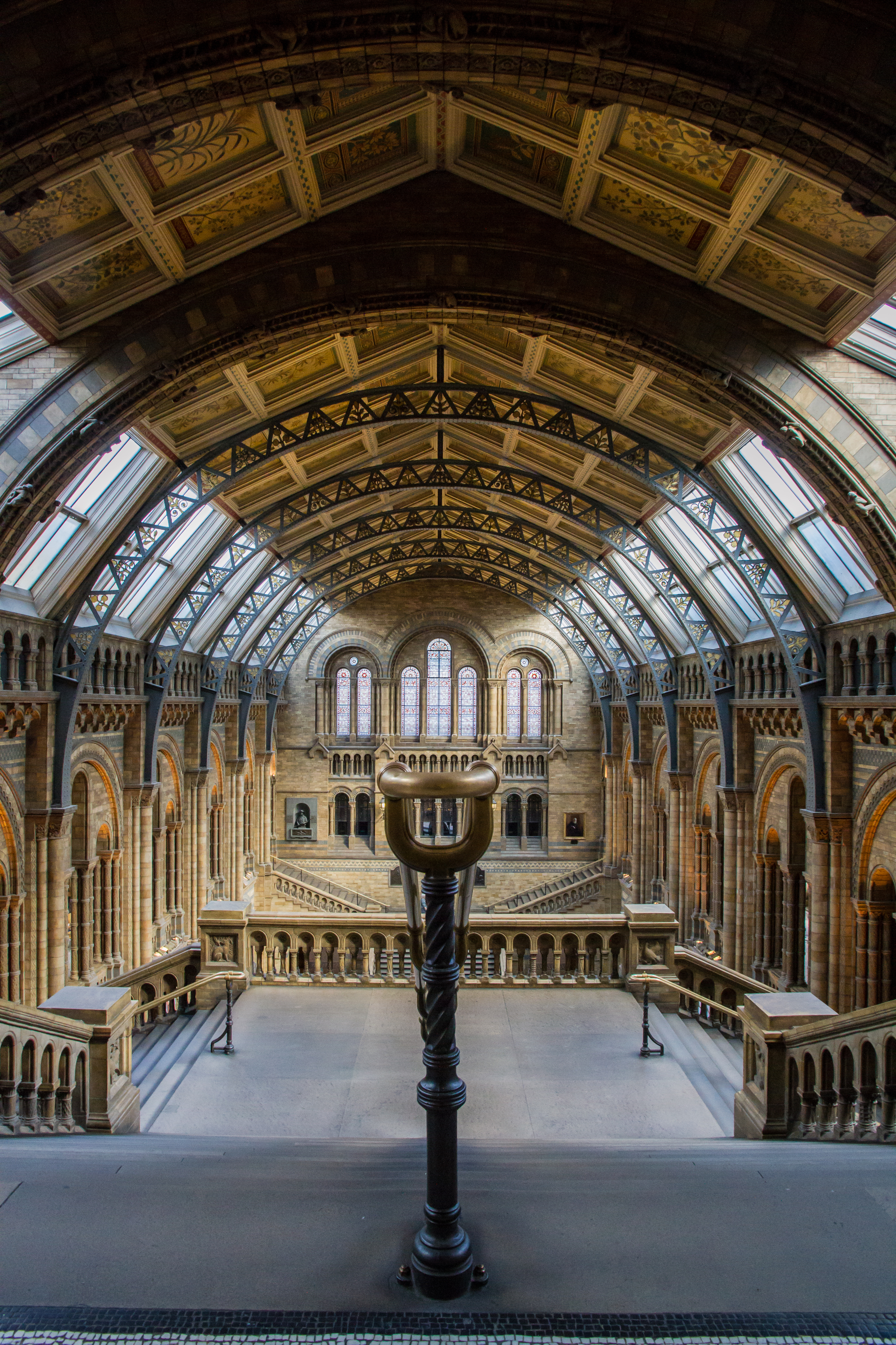 Natural History Museum, London, Central Hall